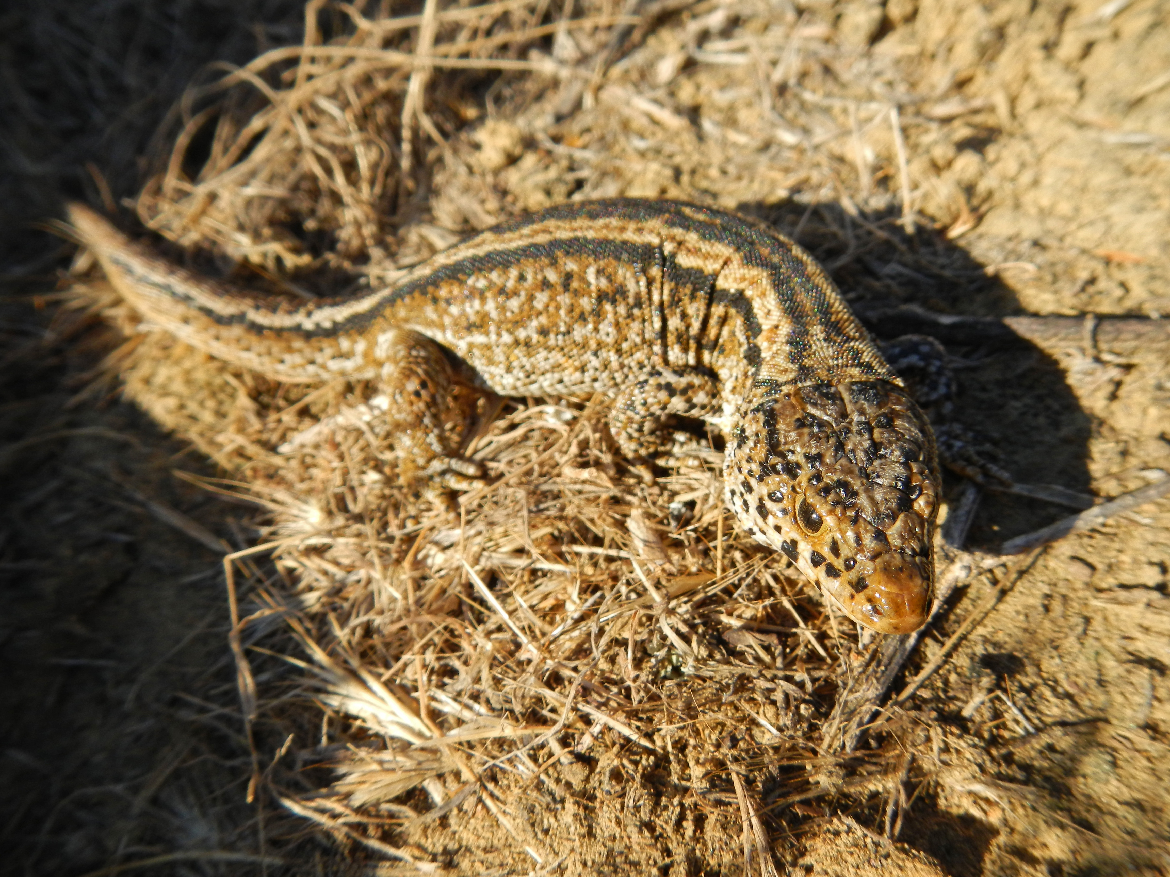 Adult female Island Night Lizard photographed on San Nicolas Island, California, as part of a mark-recapture and genetic study, on 14 October 2012. Photograph by Ryan P. O'Donnell.